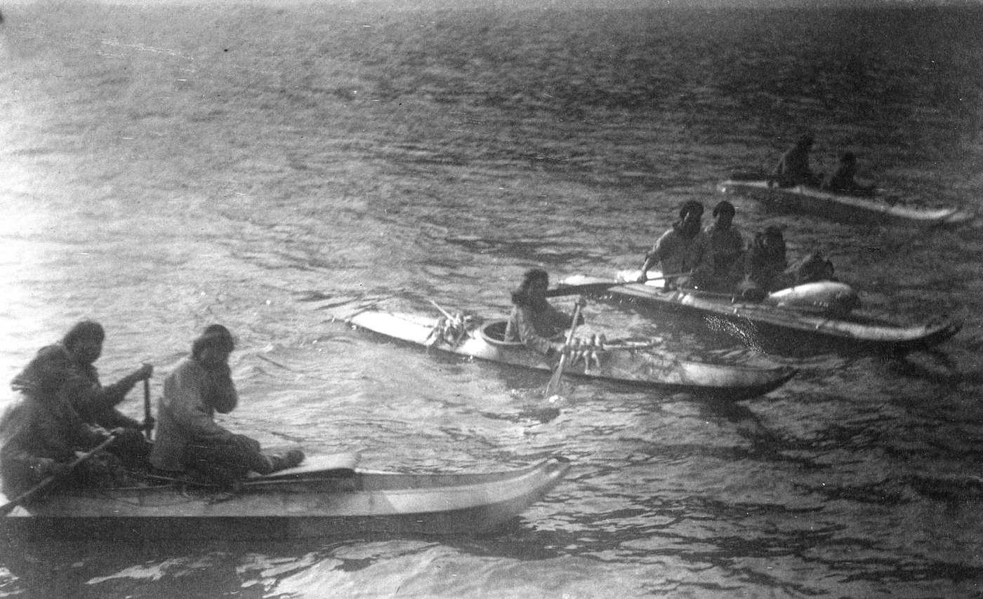 King Island natives in kayaks. Some boats with multiple occupants, some with items stowed on deck. Paddlers are using single-ended paddles.